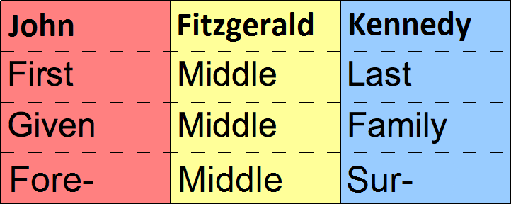 Schematic example of First-Middle-Last names